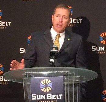 Scott Satterfield, head coach of the Appalachian State Mountaineers football team, at the 2015 Sun Belt Conference Media Day in the Mercedes-Benz Superdome in New Orleans.